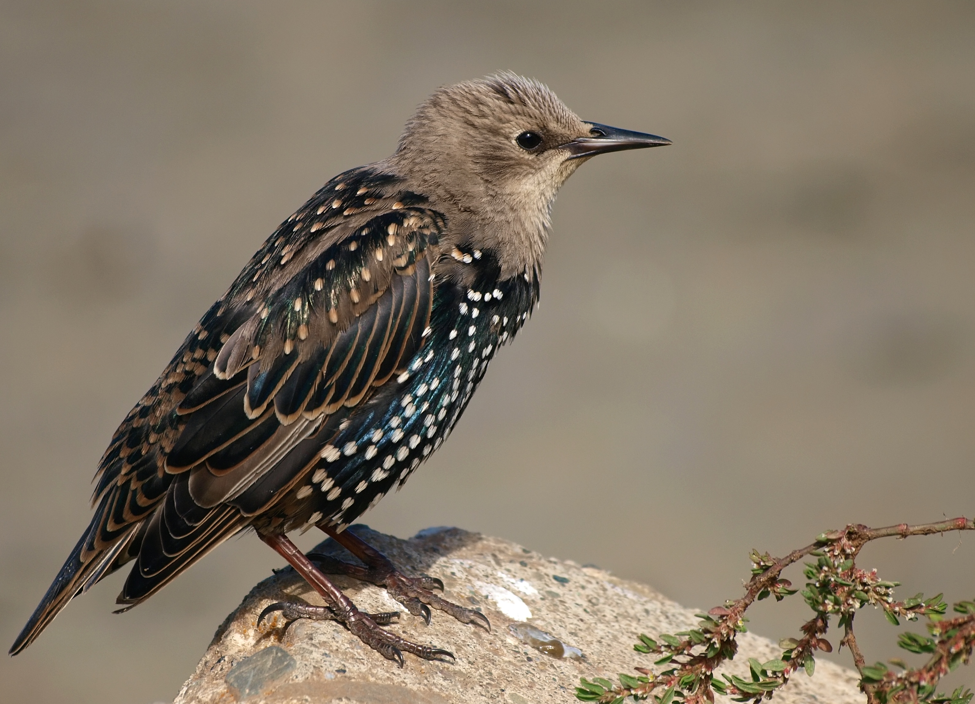 A juvenile European Starling (also known as Common Starling or just Starling, Sturnus vulgaris). It is part of a large flock of mixed blackbirds/Starlings at Crissy Field in San Francisco, California, USA. Its feathers are in transition to first-winter plumage.